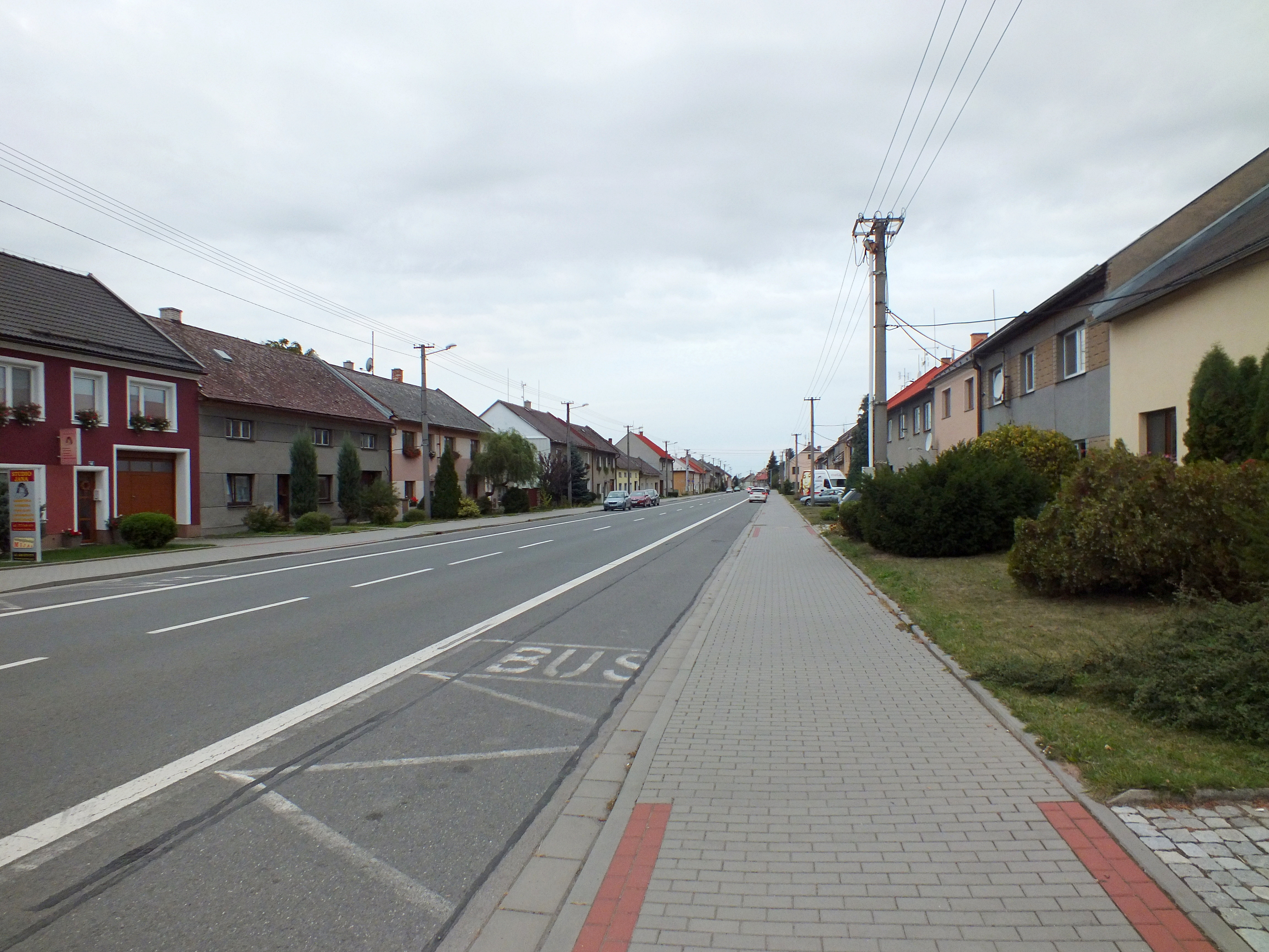 The main street in Daskabát